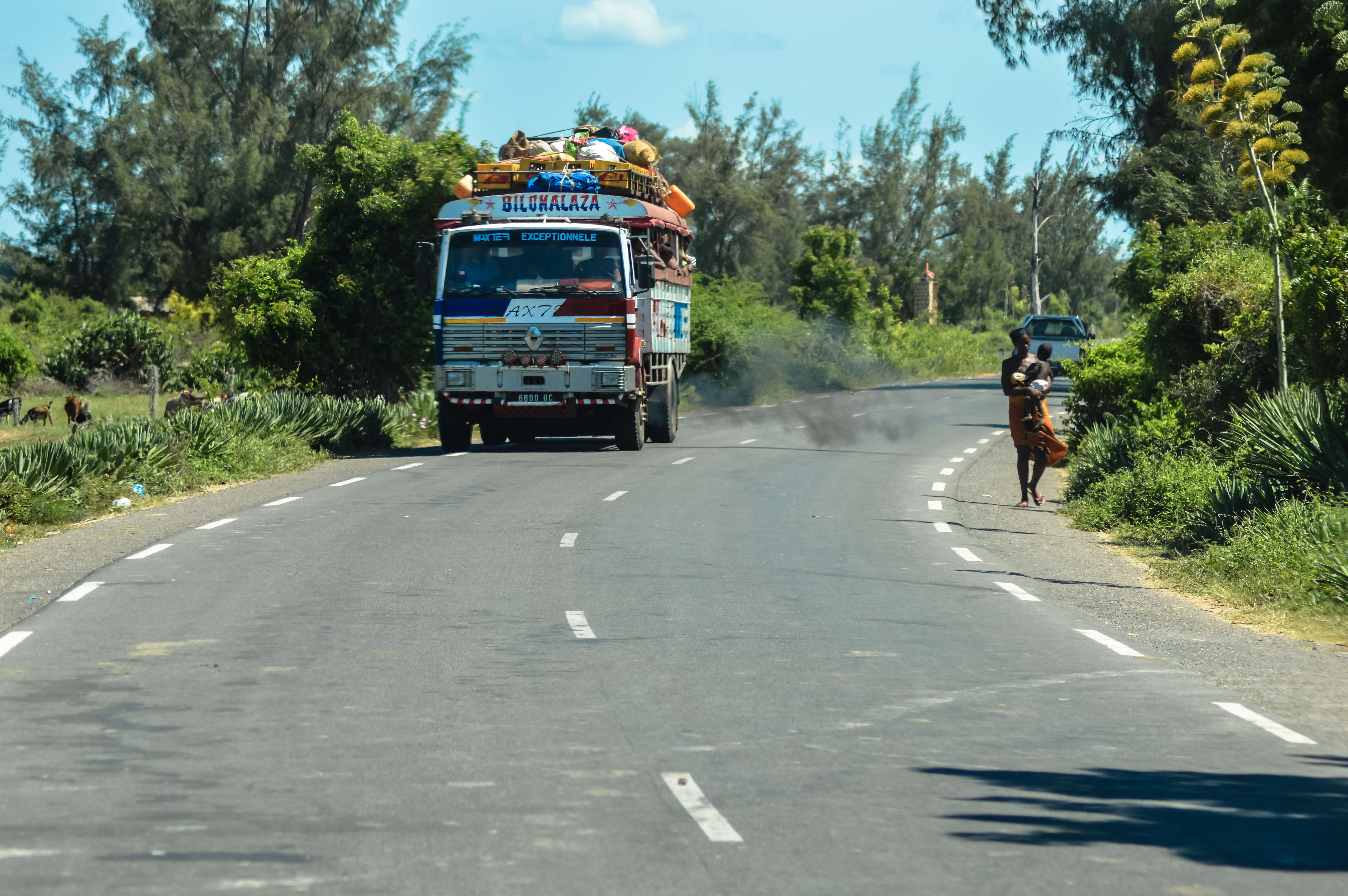 This is an image with the theme "Africa on the Move or Transport" from: Madagascar